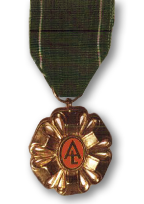 The Polish Academy of Literature operating between 1933–1939 awarded two highest national honors for contribution to the development of Polish literature: the Gold and the Silver Laurel (Złoty, and Srebrny Wawrzyn), picuted.